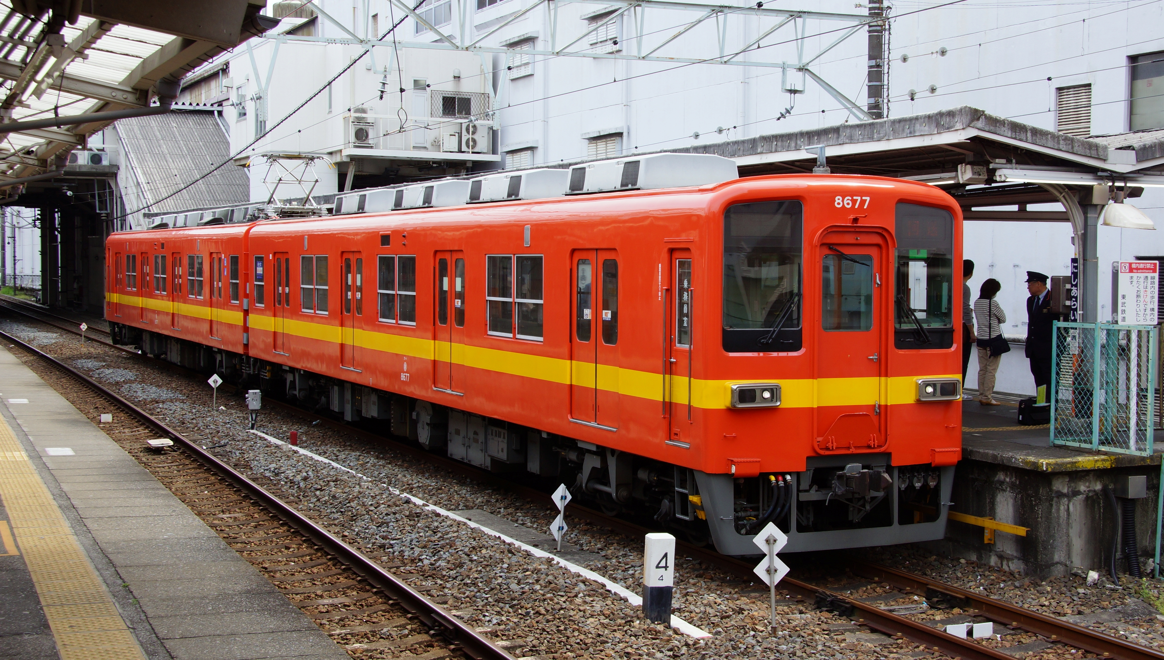 Tobu 8000 series two-car EMU set 8577 on an empty stock working at Nishiarai Station in special commemorative orange livery